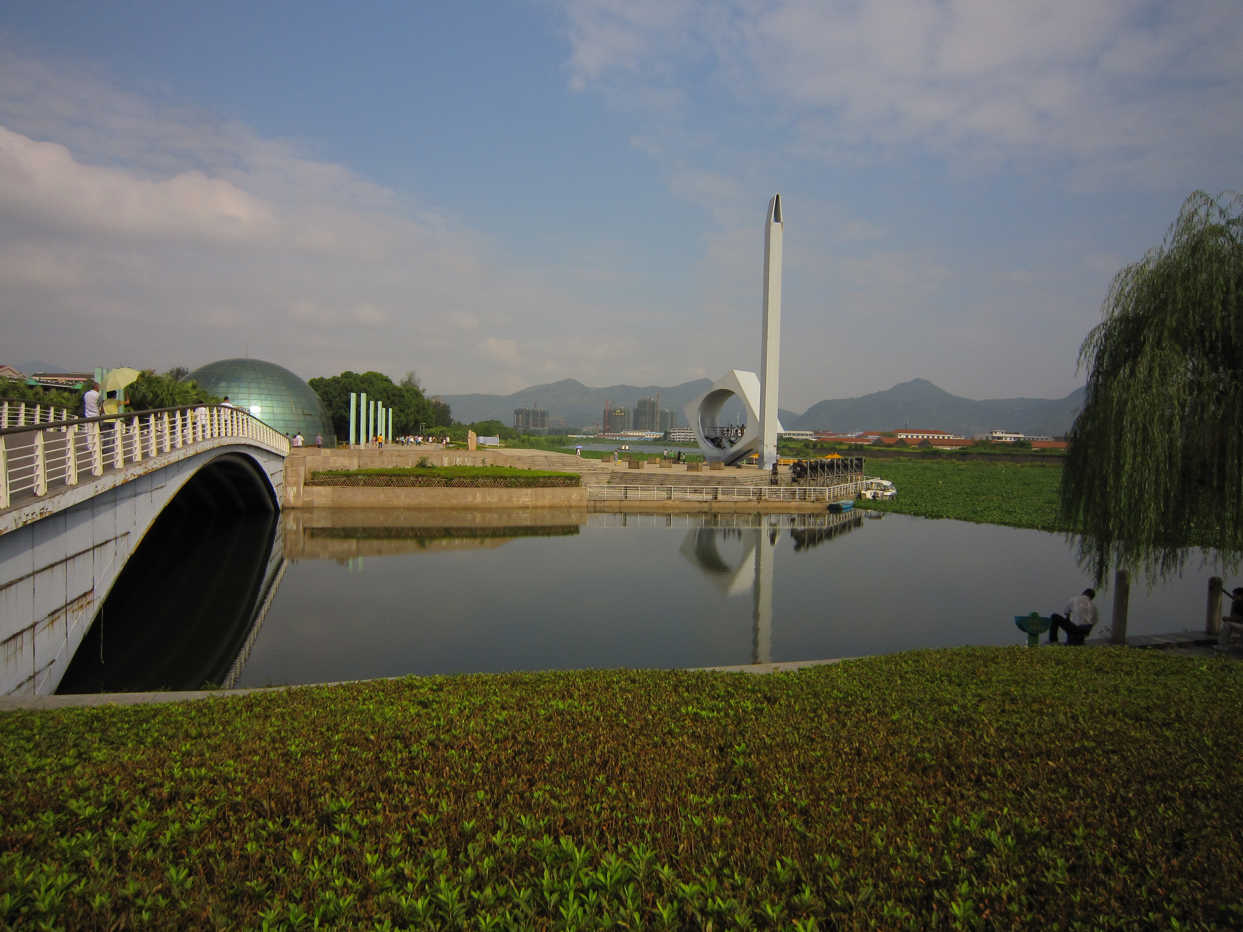 Huangyan District; Taizhou; Skulptur "Mold City"